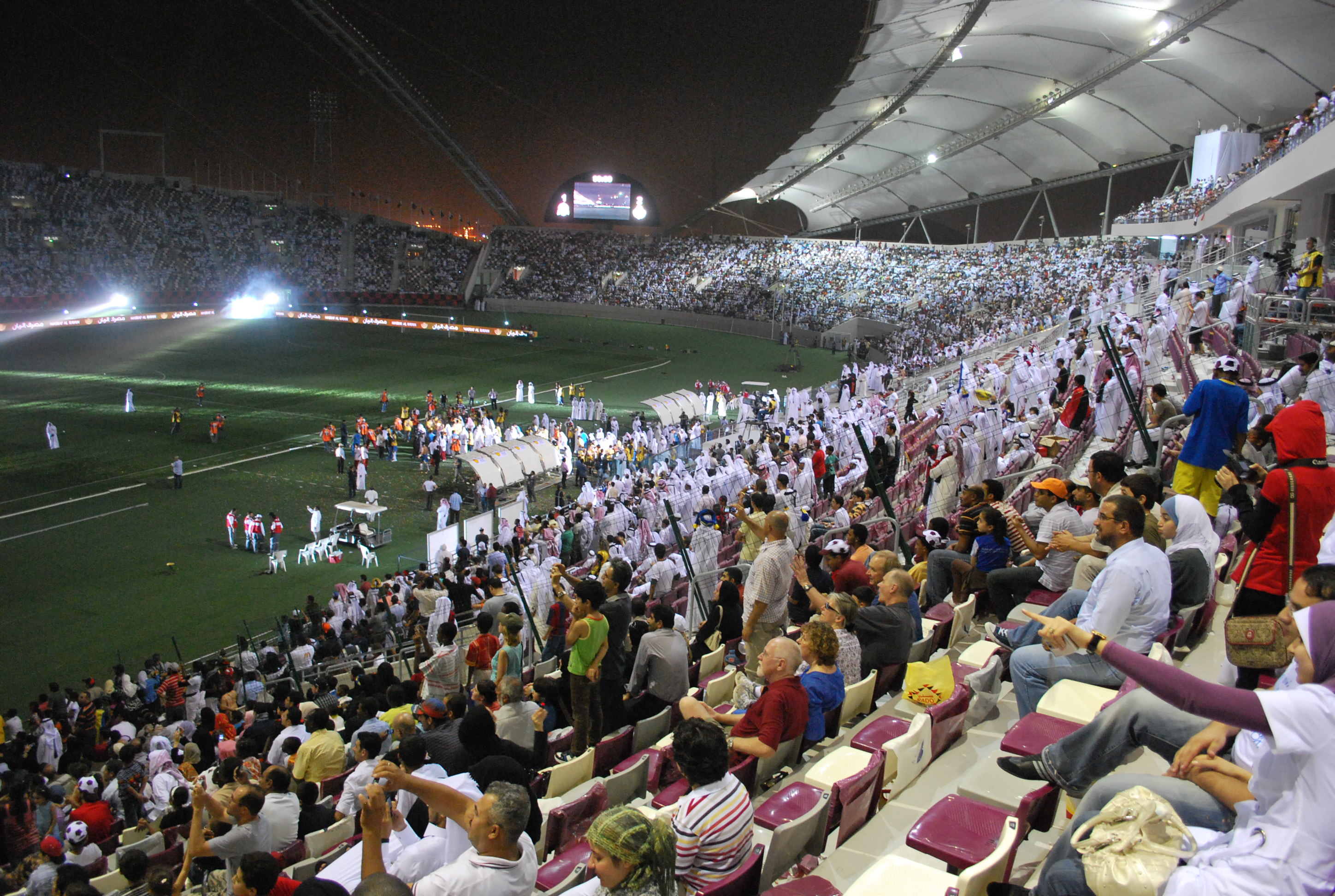 people in Stadium 2009 Emir of Qatar Cup Final.